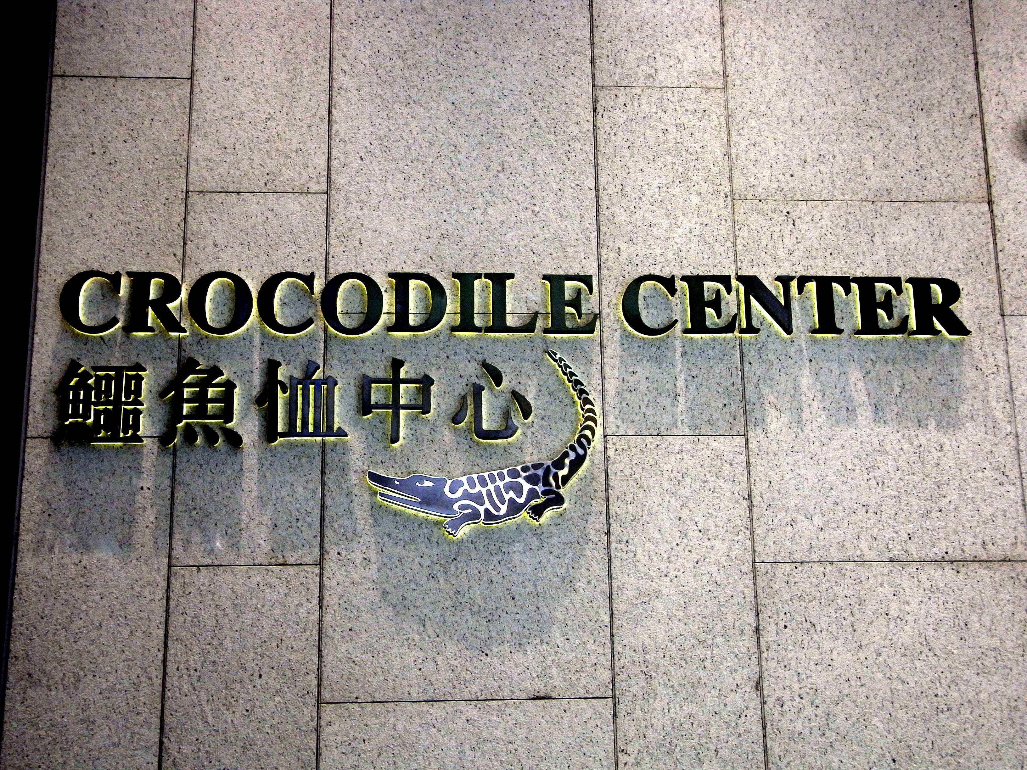 觀塘 鱷魚恤中心